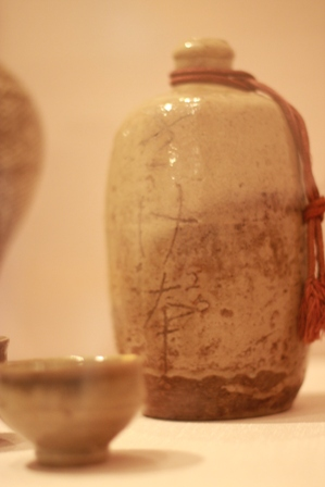 Sake Bottle Japan, Edo period (1615-1868) Glazed stoneware, cotton rope Gift of Dr. and Mrs. Terence Barrow, 1983 (5181.1) Wikipedia Loves Art at the Honolulu Academy of Arts This photo of item # 5181.1 at the Honolulu Academy of Arts was contributed under the team name "The_Wahine_Photo_Treasure_Hunters" as part of the Wikipedia Loves Art project in February 2009. Honolulu Academy of Arts The original photograph on Flickr was taken by chungj 415—please add a comment to the original Flickr page whenever a use has been made on Wikipedia or another project. Project galleries on Flickr: this institution, this team